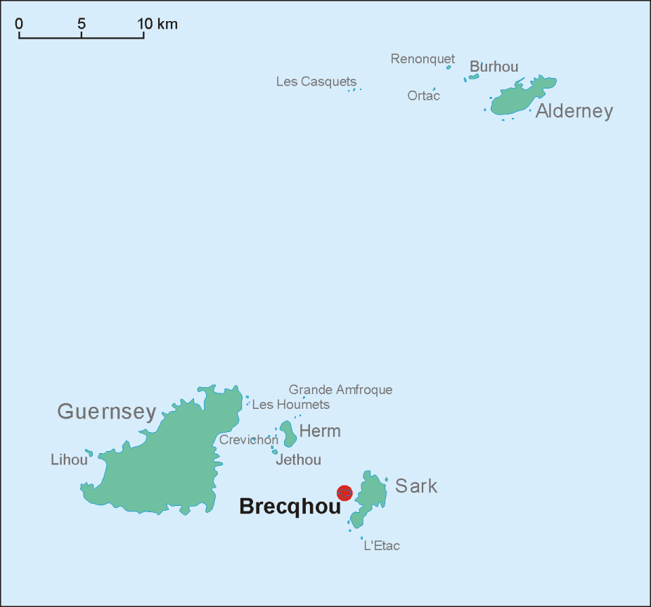 Location map of Brecqhou